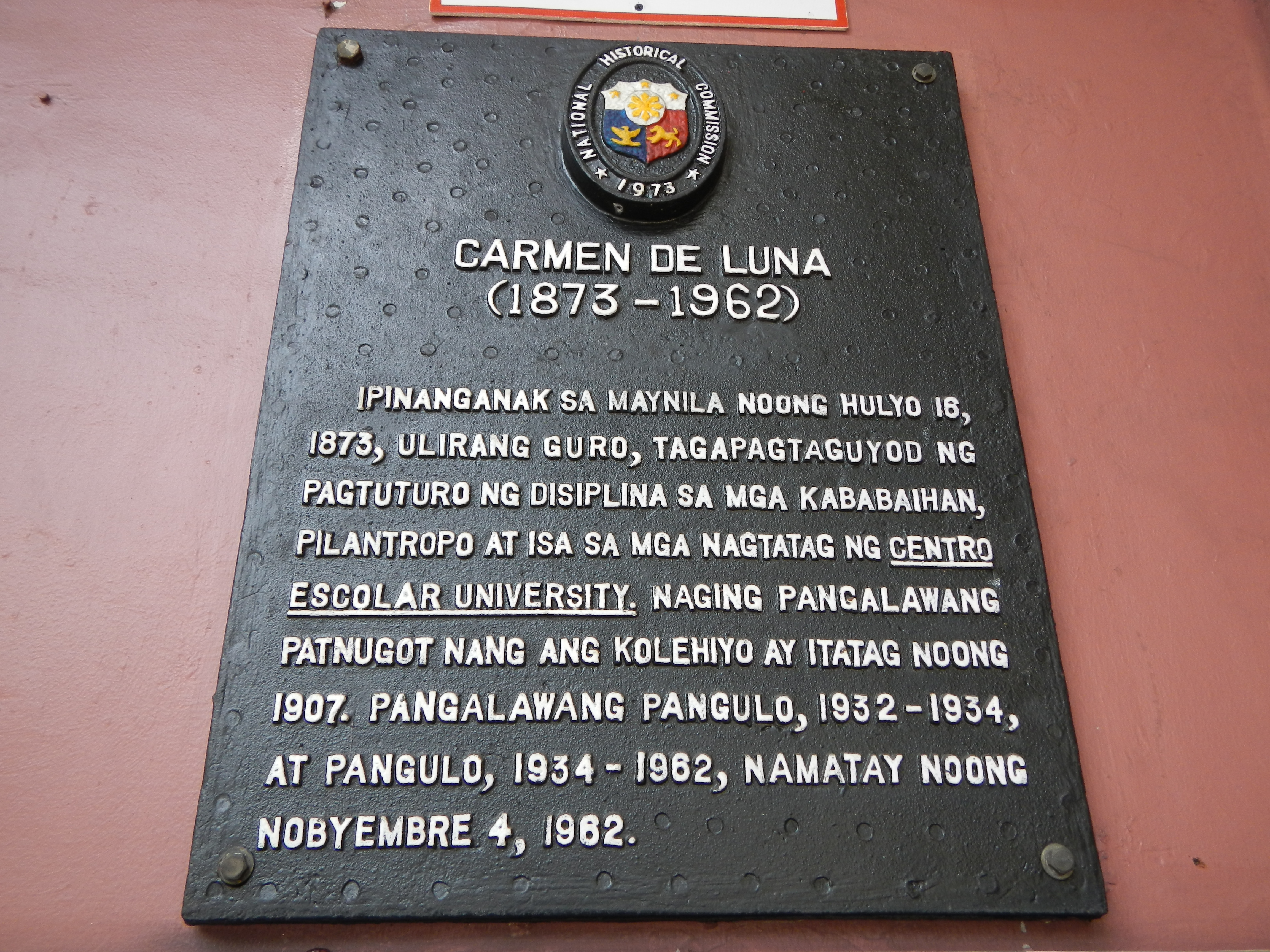 Photos of Centro Escolar University with the Historical Markers of Carmen de Luna, along Mendiola Street[1] is a short thoroughfare in the district of San Miguel, Manila, Metro Manila, the Philippines close to Malacañan Palace in front of the Abbey of Our Lady of Montserrat of the San Beda College and beside La Consolacion College Manila Mendiola Sreet Manila.